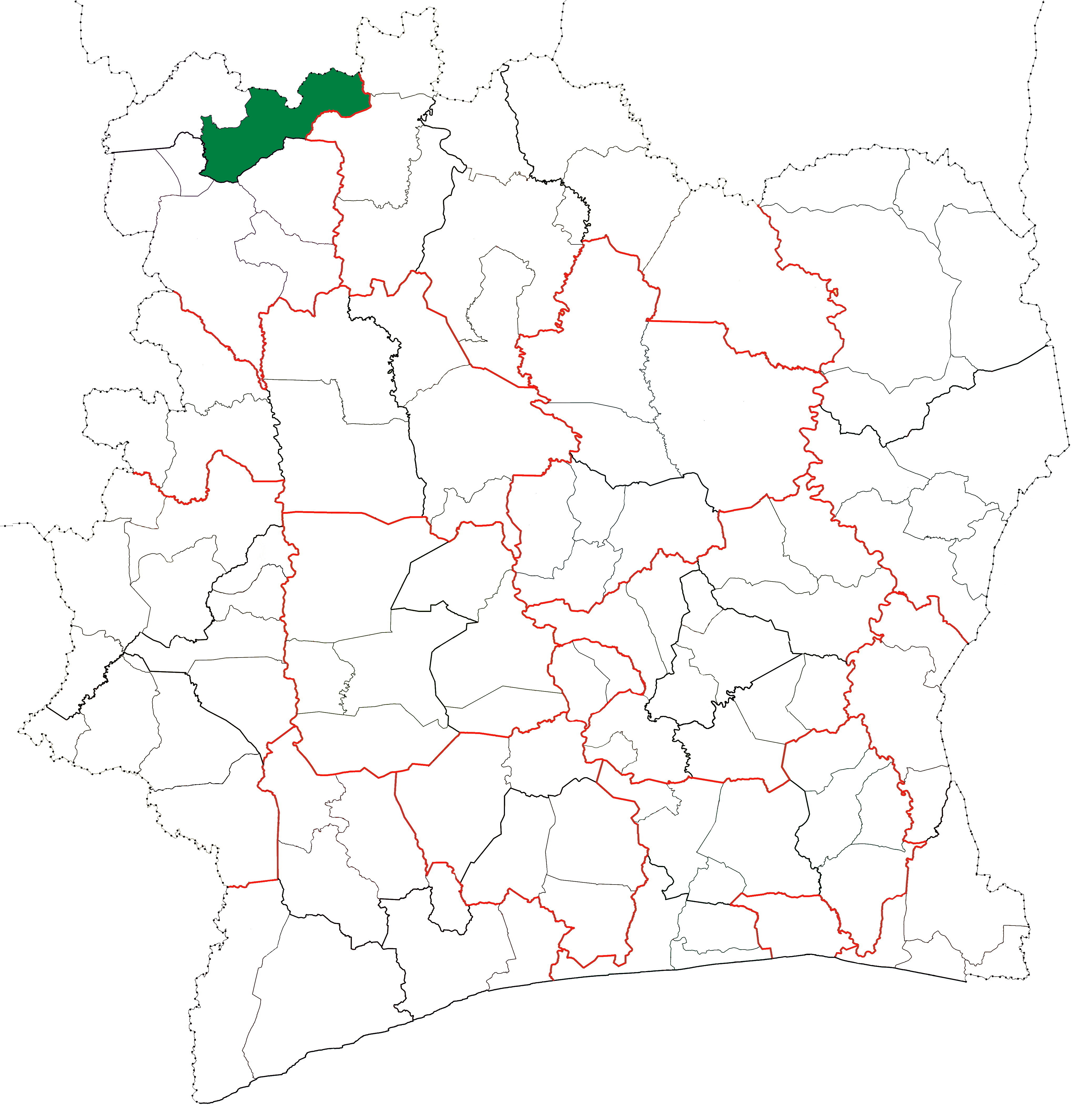 Locator map for Kaniasso Department in Côte d'Ivoire.